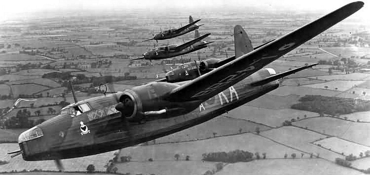 Flight of Wellington Bombers of No. 9 Squadron RAF, identified by squadron code KA and bat motif on squadron badge on nose.